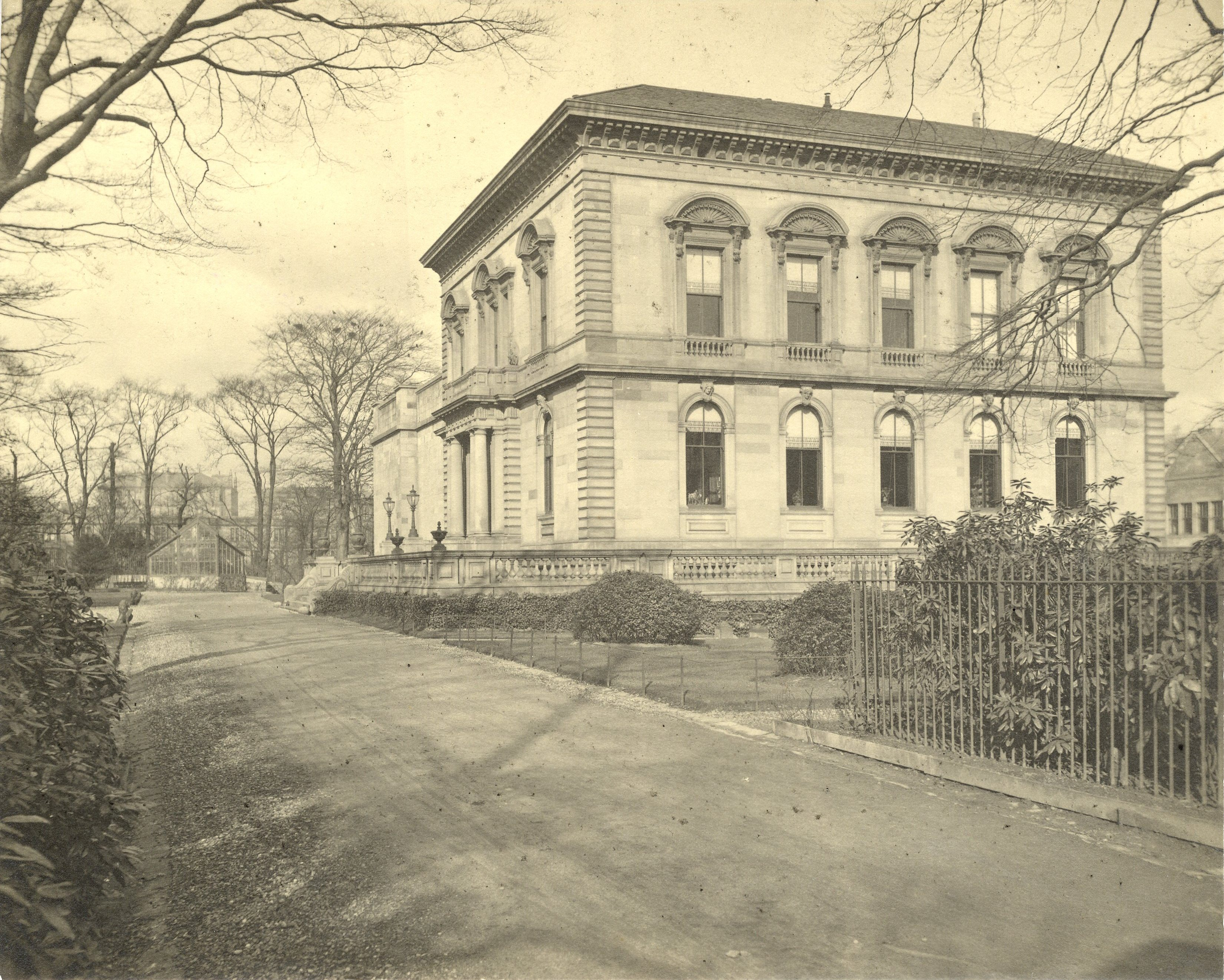 Photograph of Queen Margaret College, North Park House, Glasgow, Scotland.